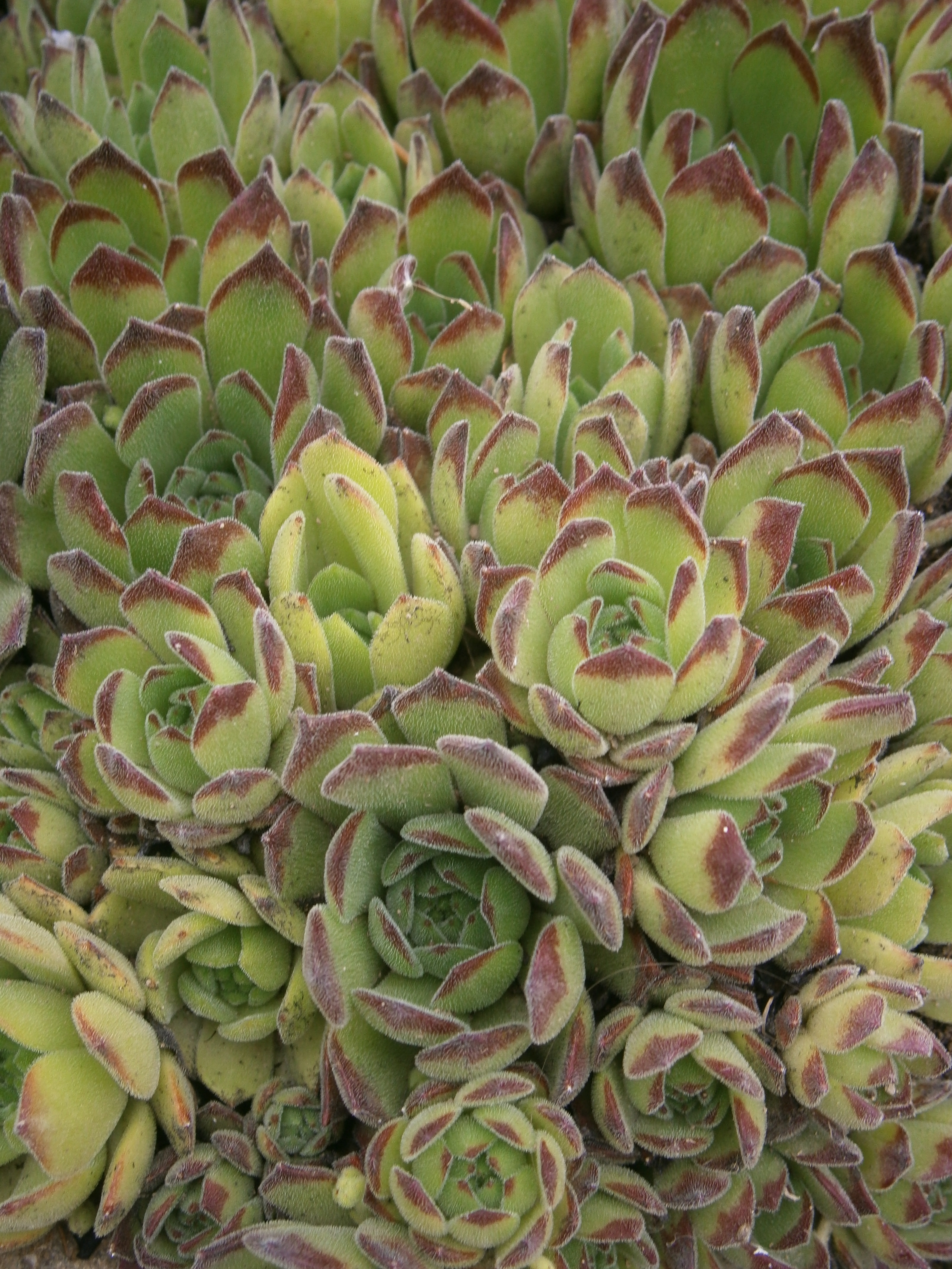 Sempervivum grandiflorum in the Jardin Botanique Alpin du Lautaret